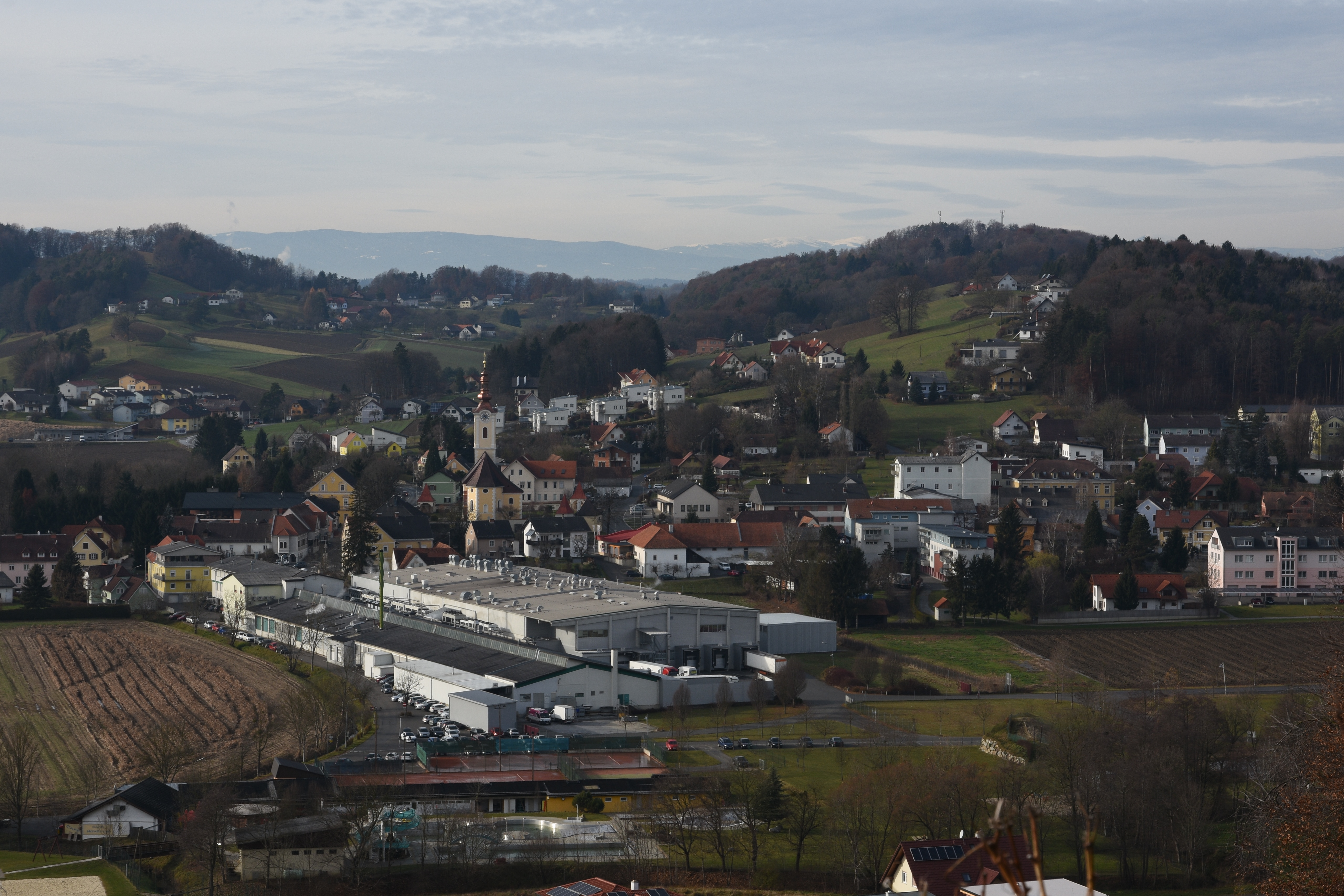 Sankt Stefan im Rosental